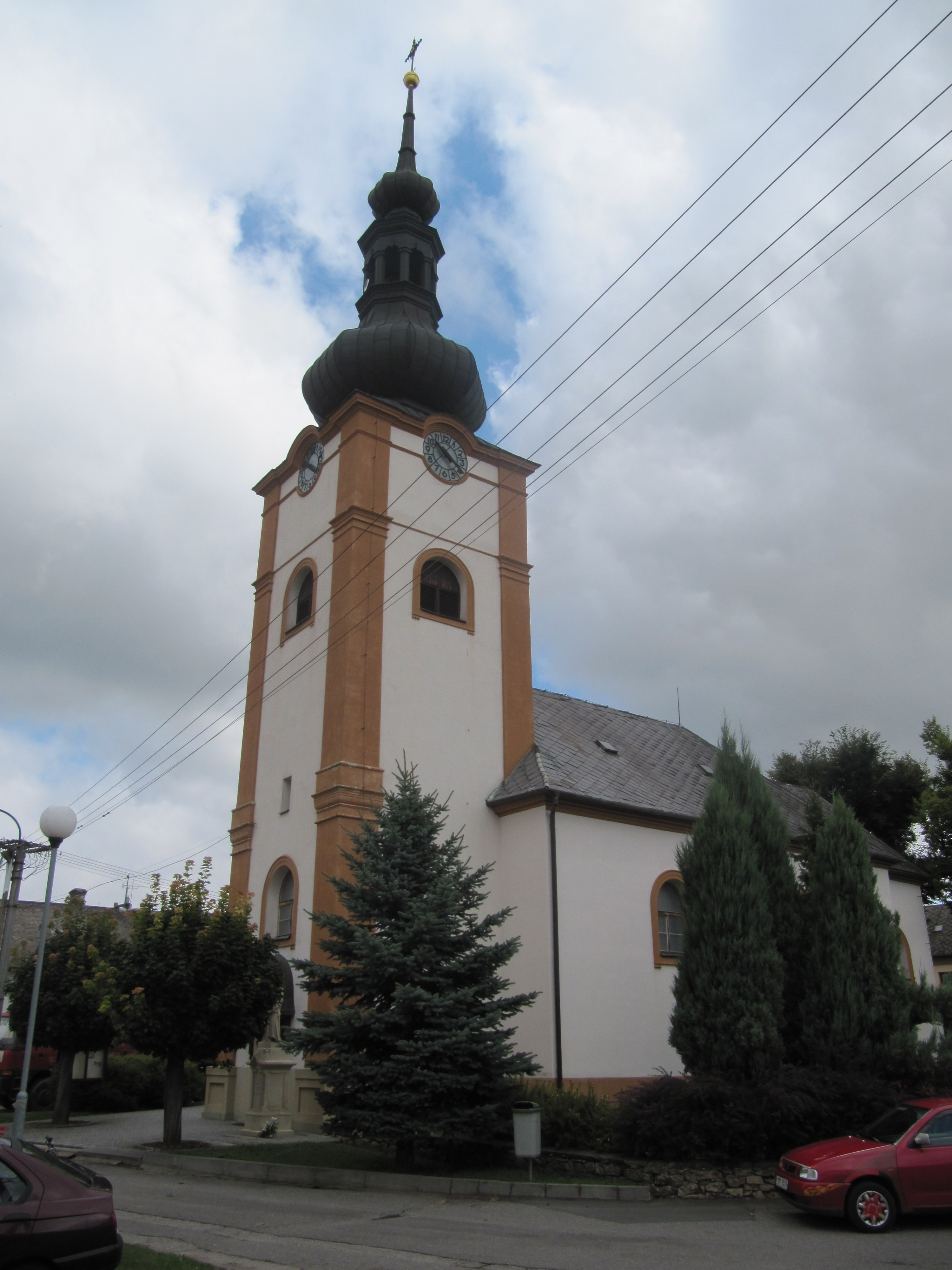 Měrovice nad Hanou, Přerov District, Czech Republic.